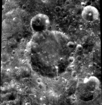 Sanford lunar crater - Clementine image.